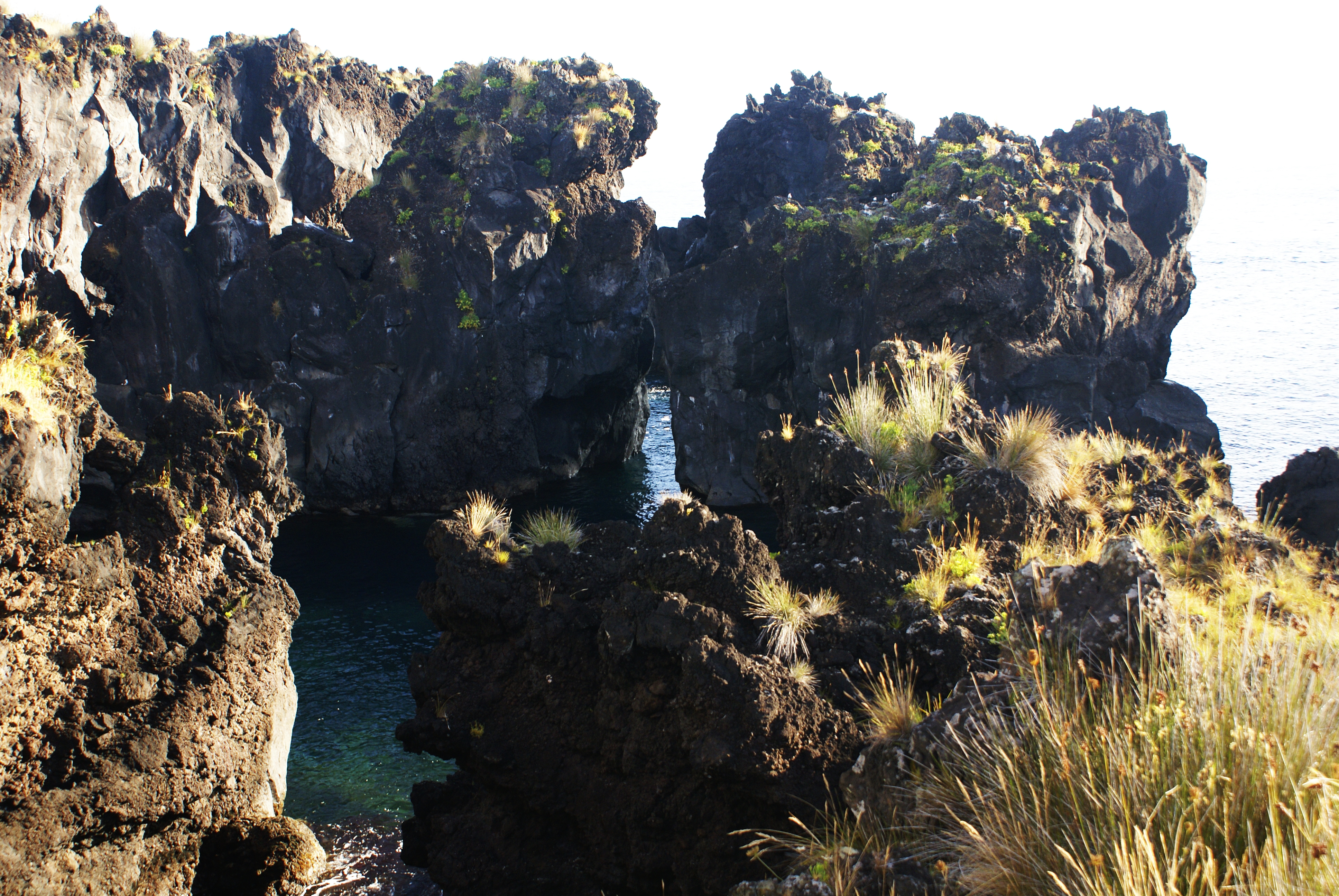 Cais do Pico, formações rochosas costeiras, São Roque do Pico, na ilha do Pico, nos Açores